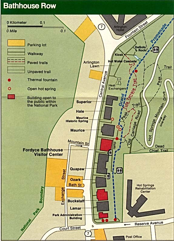 Map of Bathhouse Row, Hot Springs National Park — Arkansas. Larger image of map on